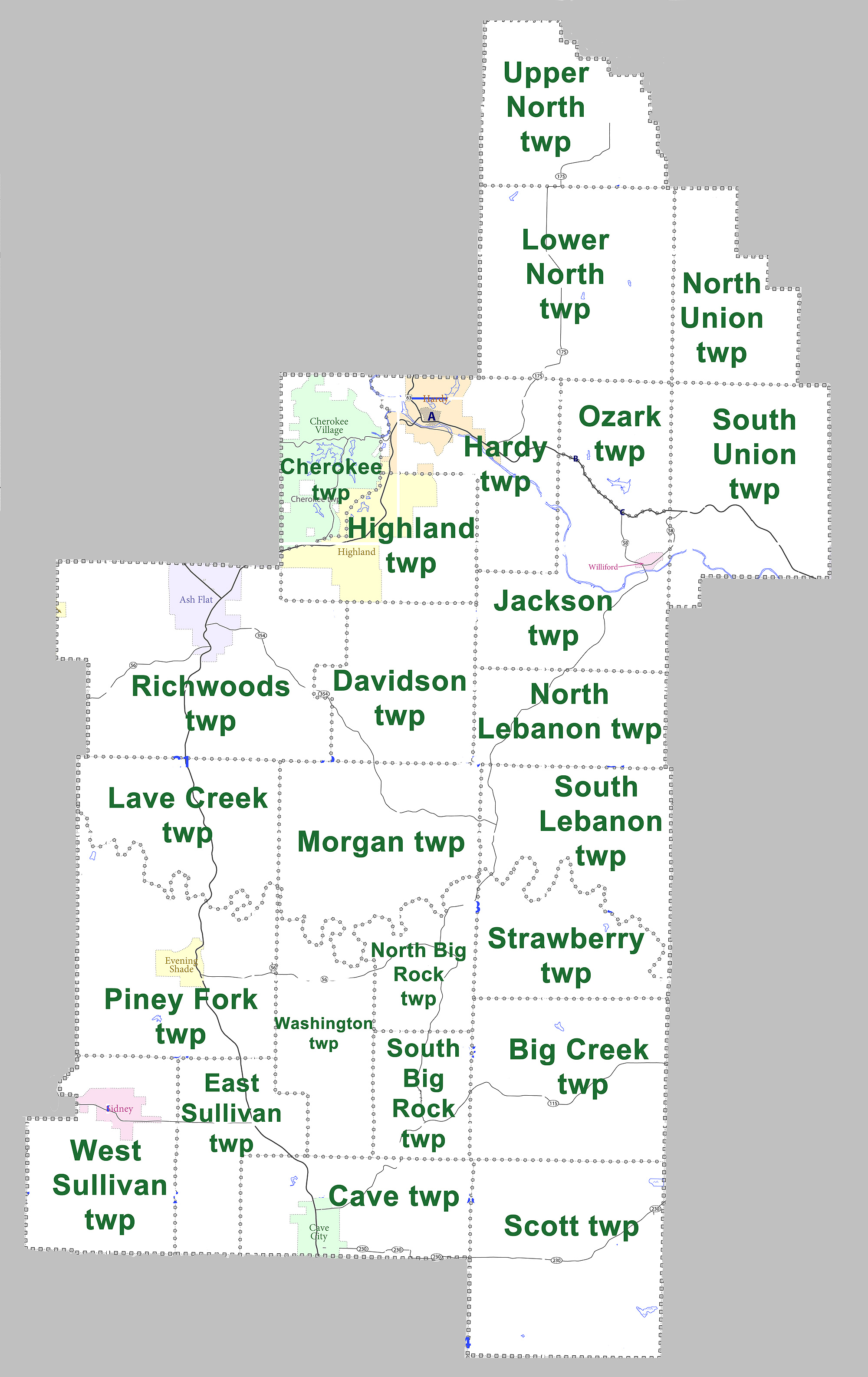 Large map showing townships in Sharp County, Arkansas. Modified from US census map (for 2010 census) for Sharp County, Arkansas